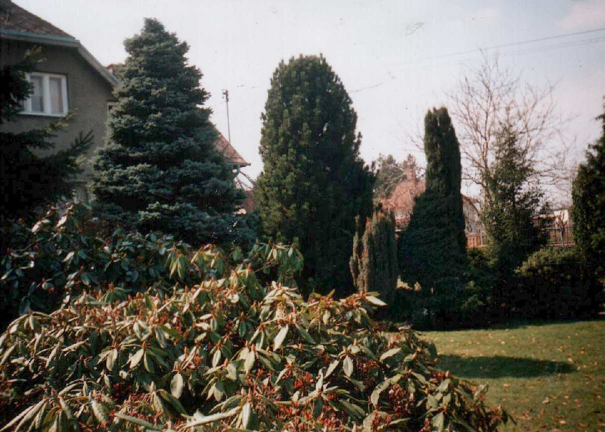 conifers different habitus